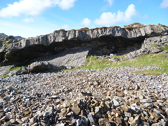 Cone sheet (igneous intrusion), west of Mingary Pier in Ardnamurchan, Scotland.